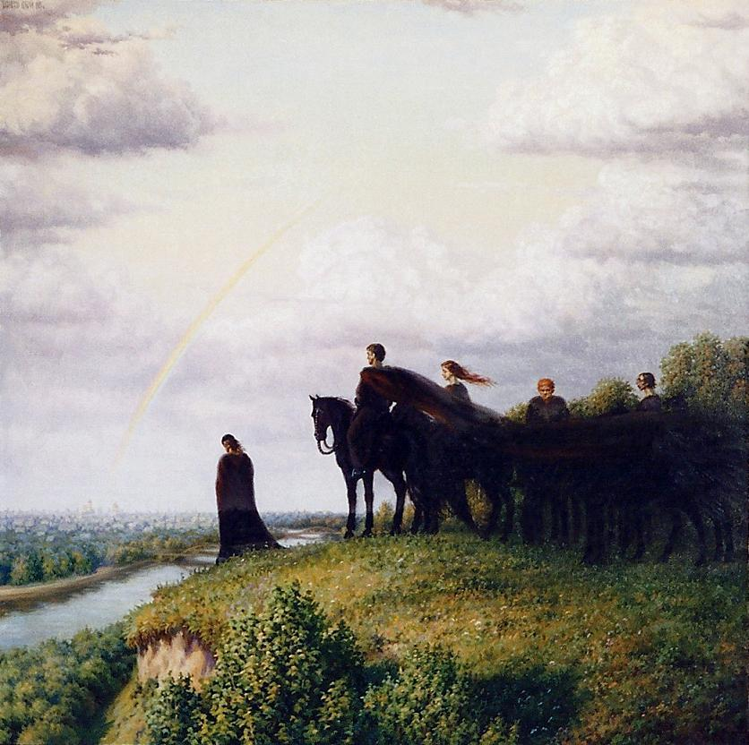 "Parting with the Moscow". Illustration to roman "Master i Margarita"of the M. A. Bulgakov